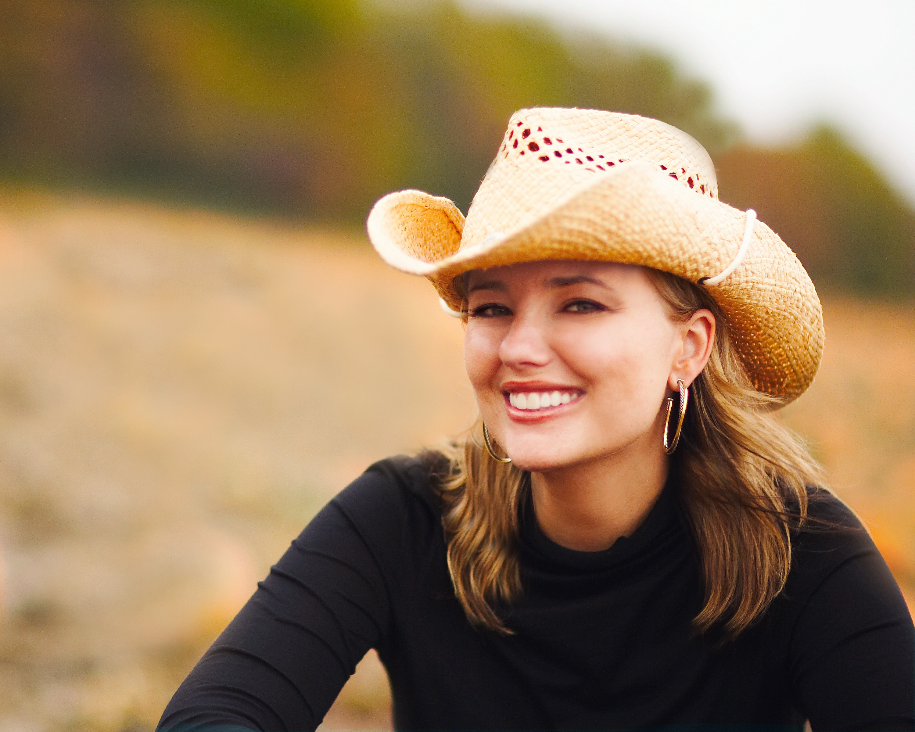 Image of Sarah Frey from the US Department of Agriculture